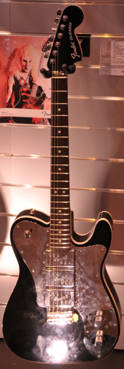 Fender J5 Telecaster